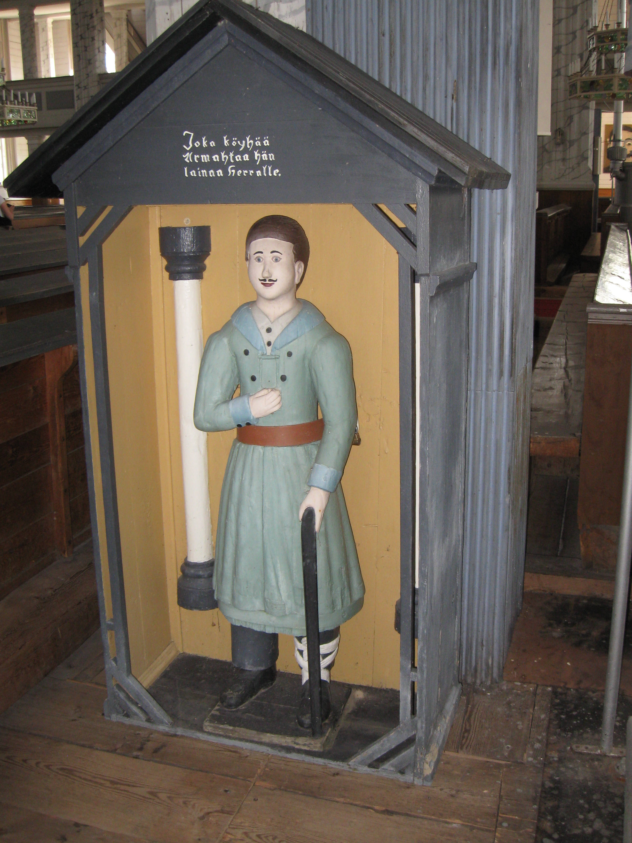 The wooden poor man of the church of Evijärvi, Finland, photographed in an exhibition in the church of Kerimäki in summer 2013.